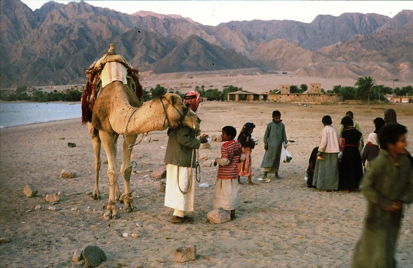 Bedouins in the the Sinai desert 1981, Entertainment